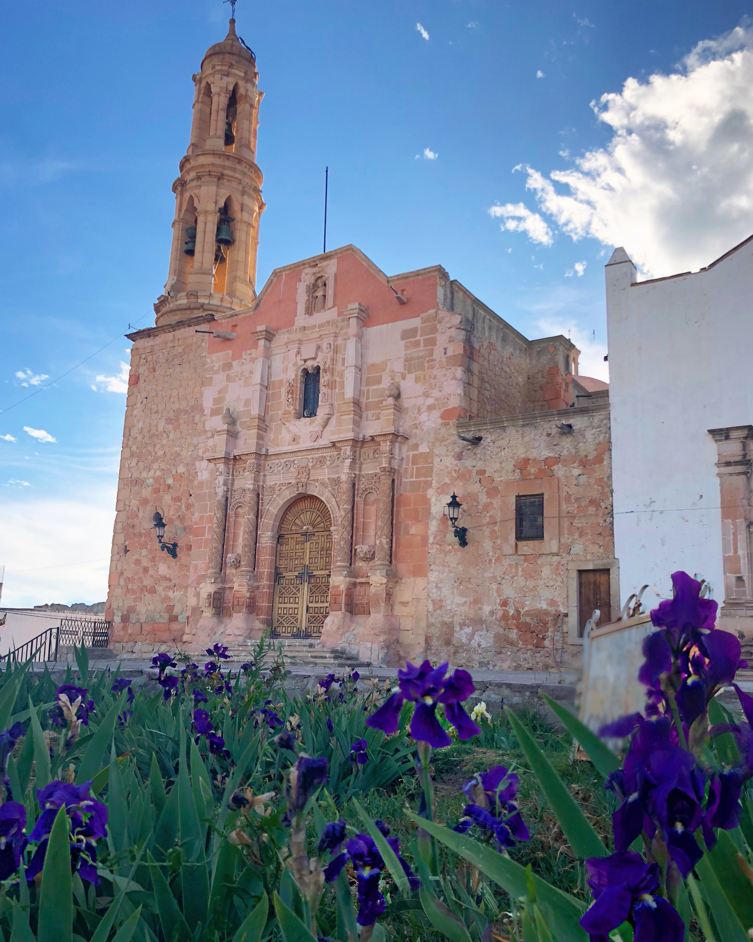 Sombrerete, Zacatecas